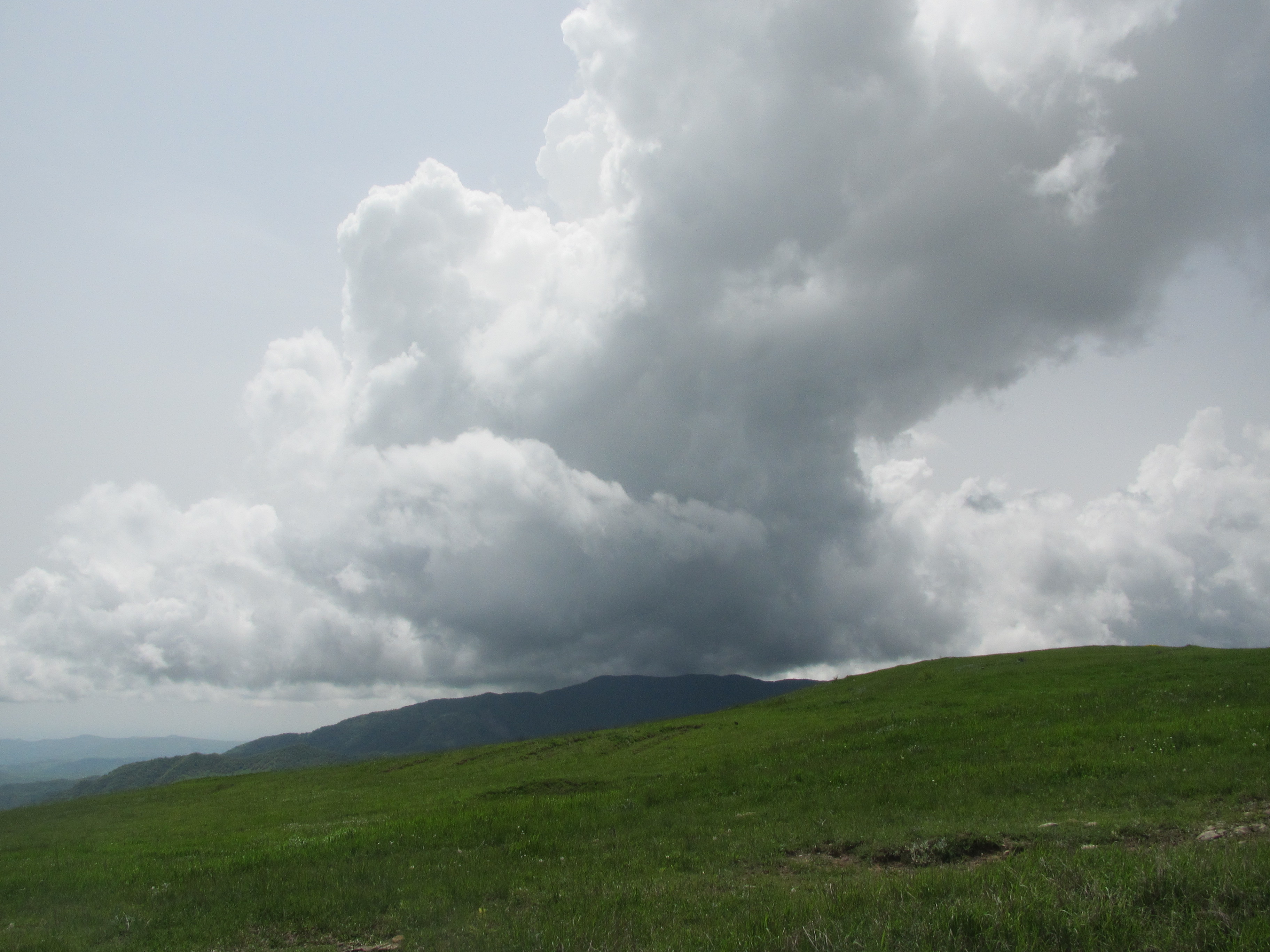 Natura of Azerbaijan